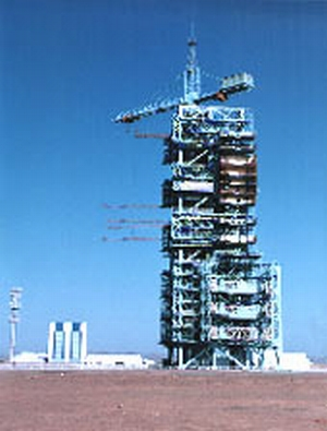 Chinese Jiuquan Satellite Launch Center